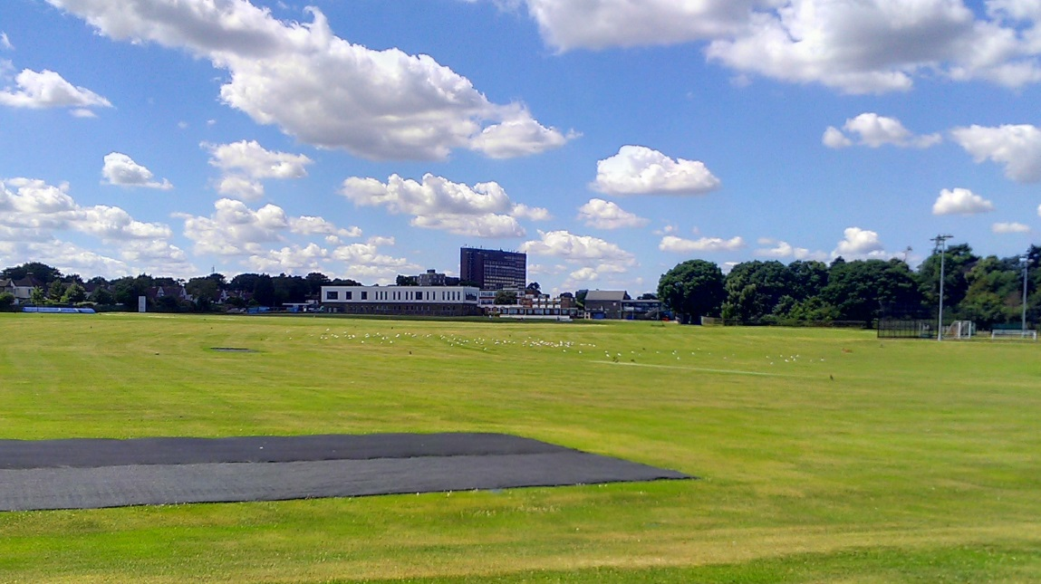 A photograph of sports fields, with Chislehurst and Sidcup Grammar School in the centre of the image. Woodland that is part of the Glades, a local park, is visible on the right.